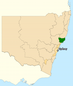 This image incorporates data that is: © Commonwealth of Australia (Australian Electoral Commission) 2009 Division of Paterson 2010